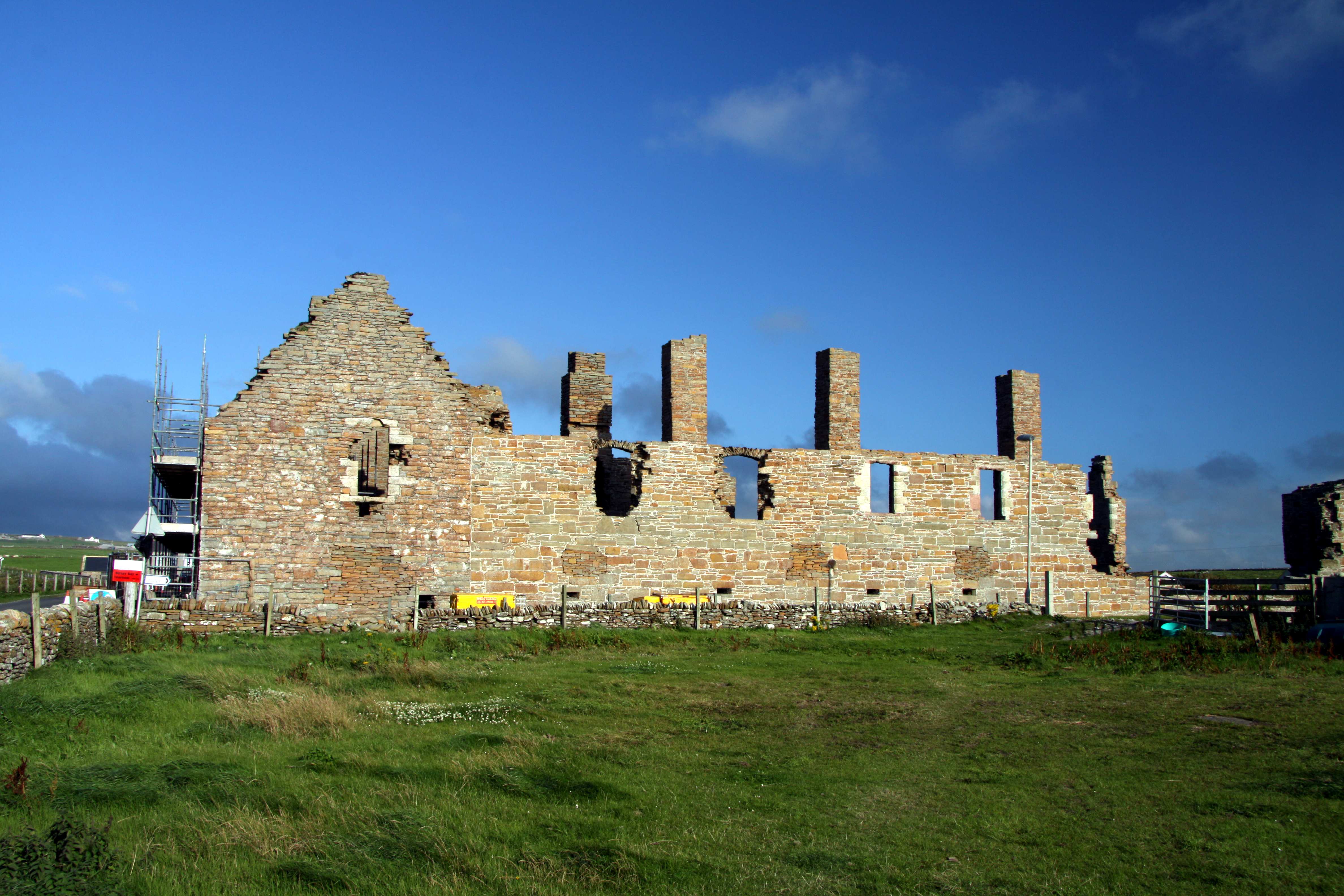 The Earl's Palace in Birsay, Orkney, Scotland, is a ruined 16th-century castle. It was built by Robert Stewart, 1st Earl of Orkney (1533–1593), illegitimate son of King James V and his mistress Euphemia Elphinstone. The palace is a category A listed building and a Scheduled Ancient Monument, and is in the care of Historic Scotland.